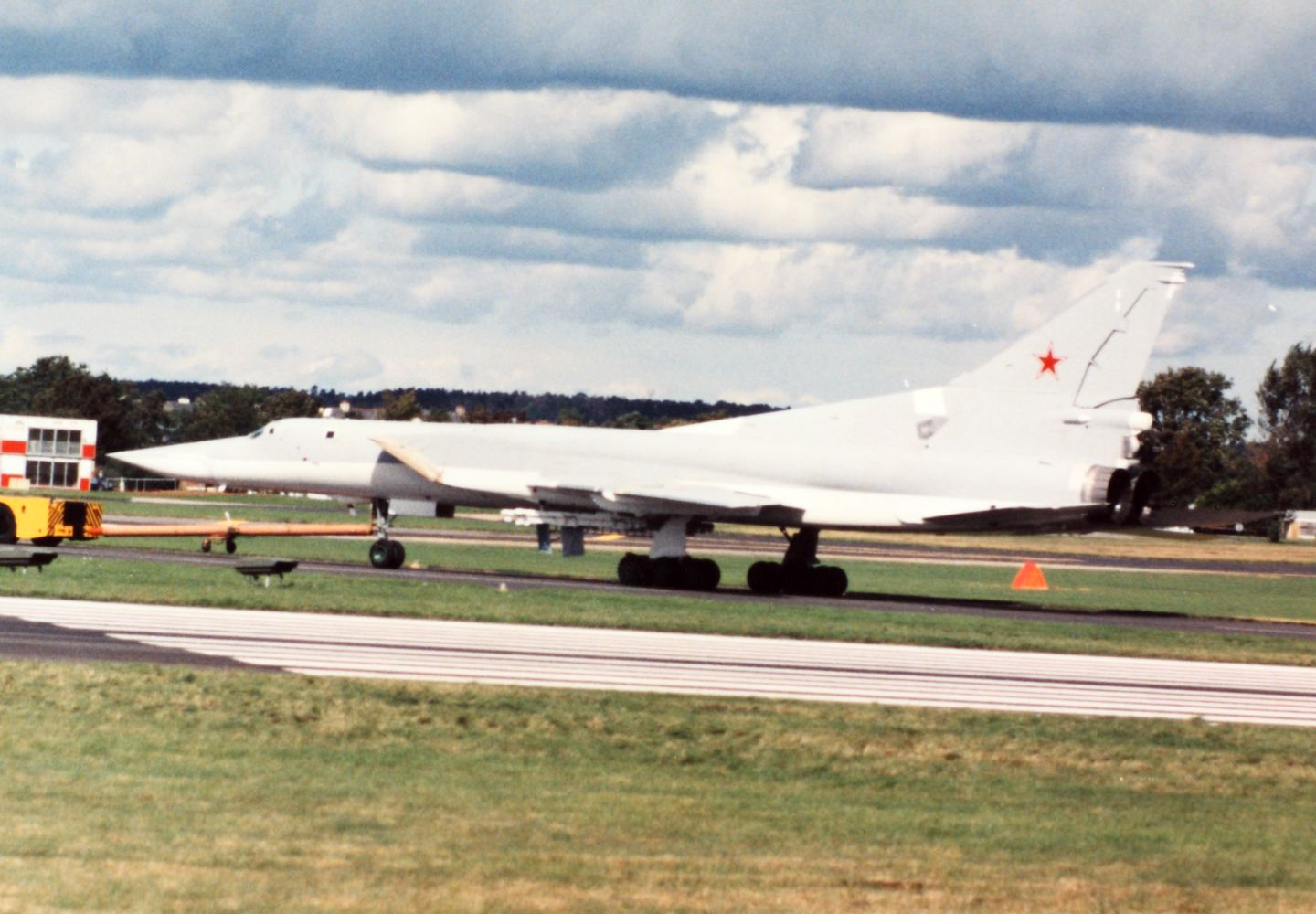 Catalog #: 15_002280 Title: Tupolev Tu-22M-3 Backfire-C Date: 1992 Collection: Charles M. Daniels Collection Photo Album Name: Soviet Aircraft Page #: 103 Tags: Soviet Aircraft, Charles Daniels, PUBLIC COMMONS.SOURCE INSTITUTION: San Diego Air and Space Museum Archive